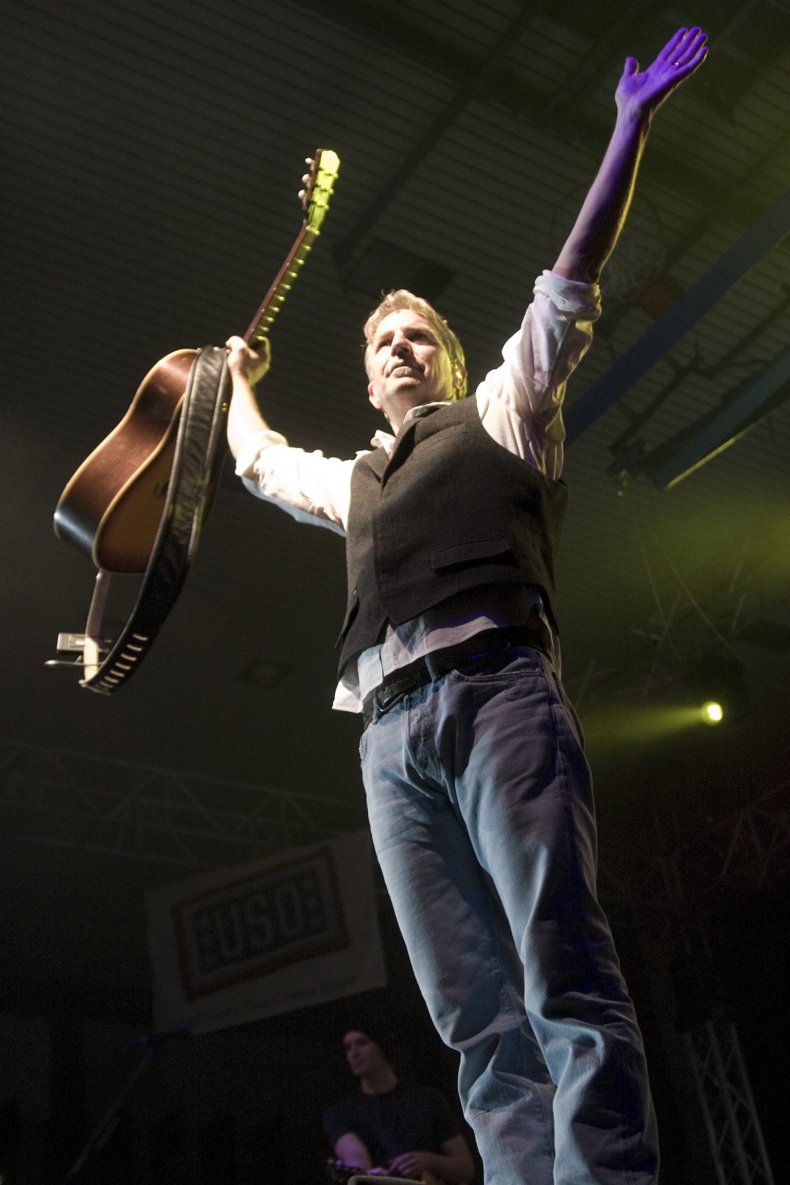 Actor/Musician Kevin Costner takes the stage at the Grafenwoehr Main Post Field House March 20.